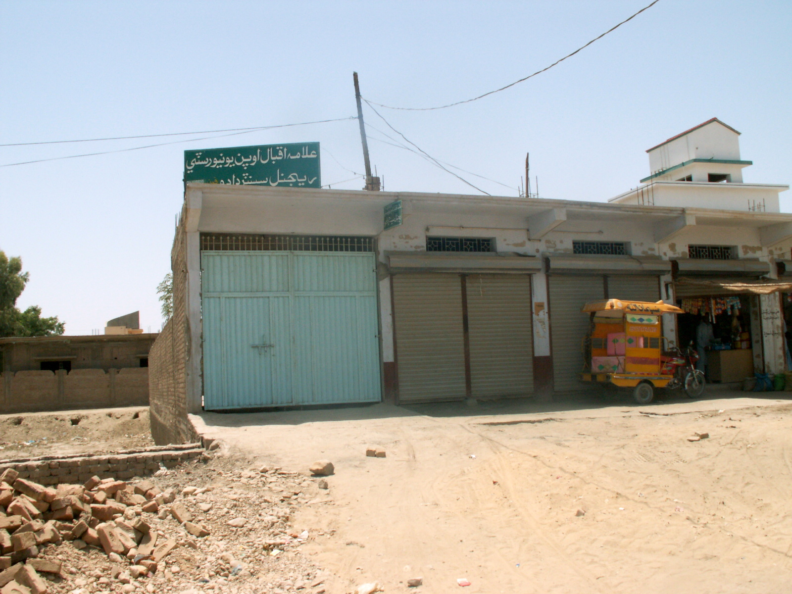 Allam Iqbal Open University, Regional Center